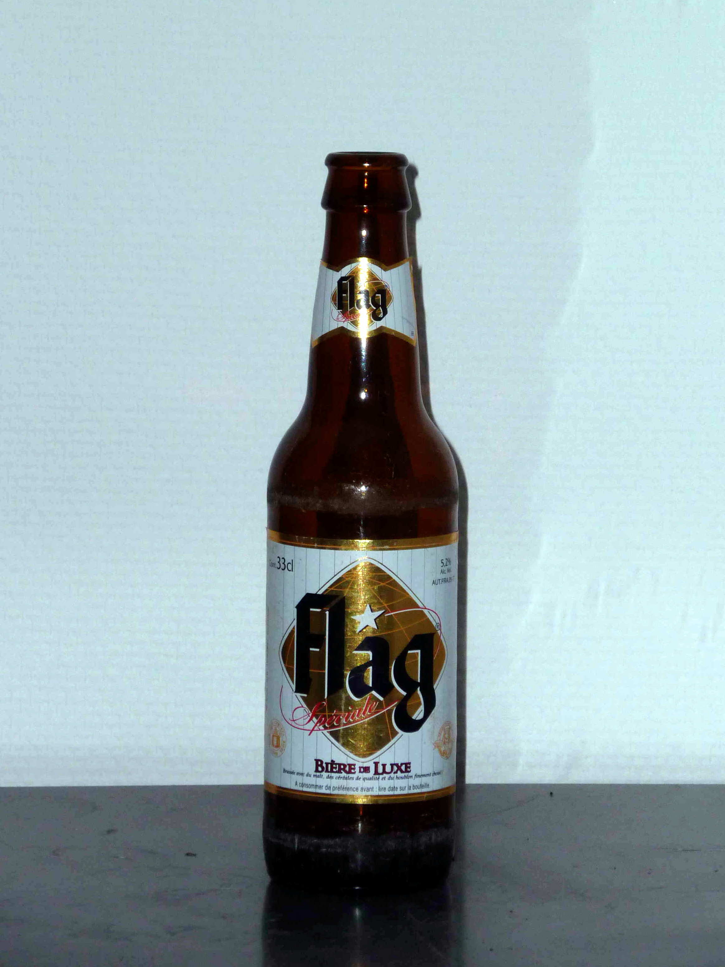 Bottle of "Flag" beer. A Senegalese beer.